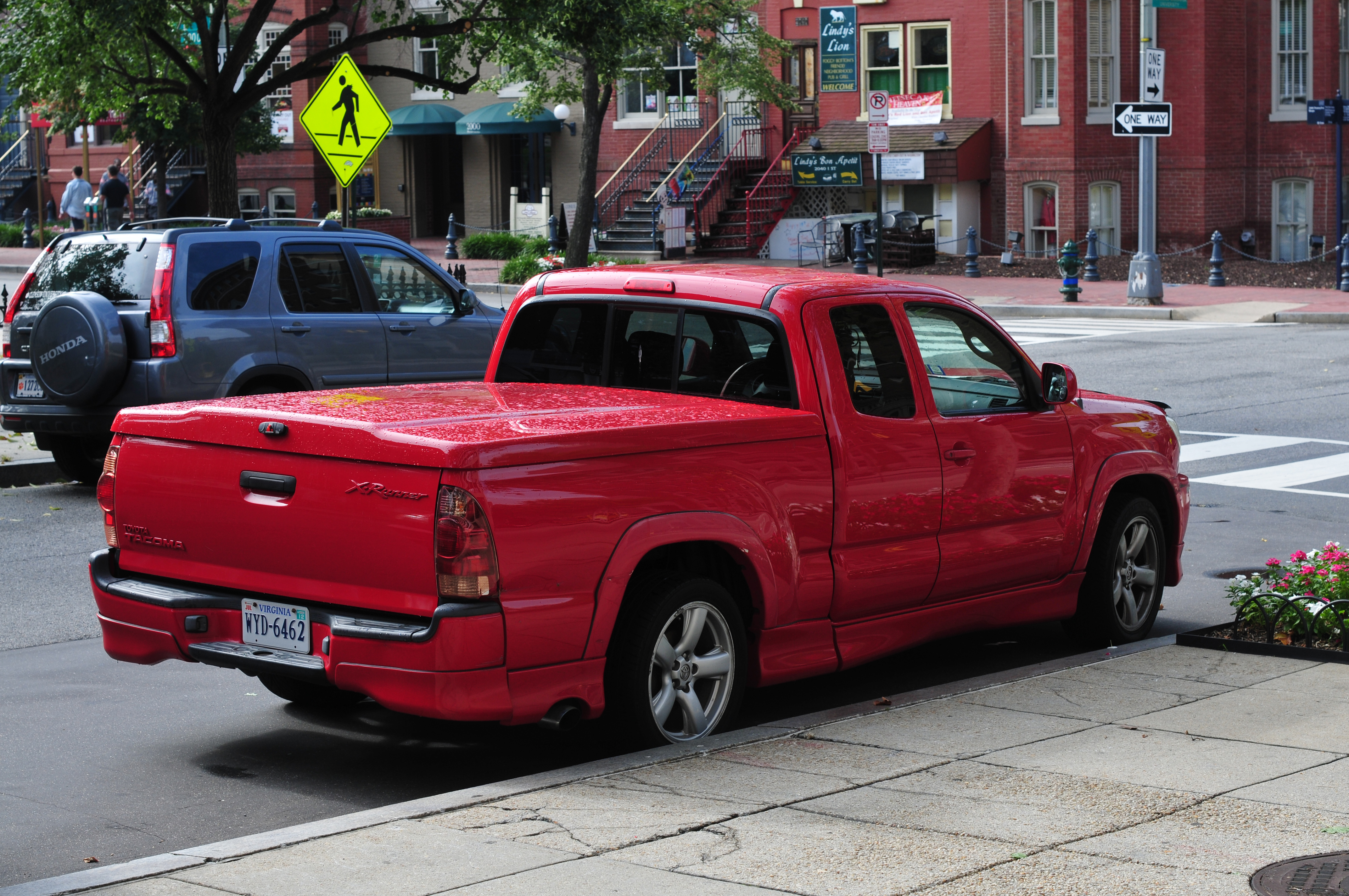 Toyoty Tacoma in Washington D.C. 2012 The making of this work was supported by Wikimedia Austria. For other files made with the support of Wikimedia Austria, please see the category Supported by Wikimedia Österreich.